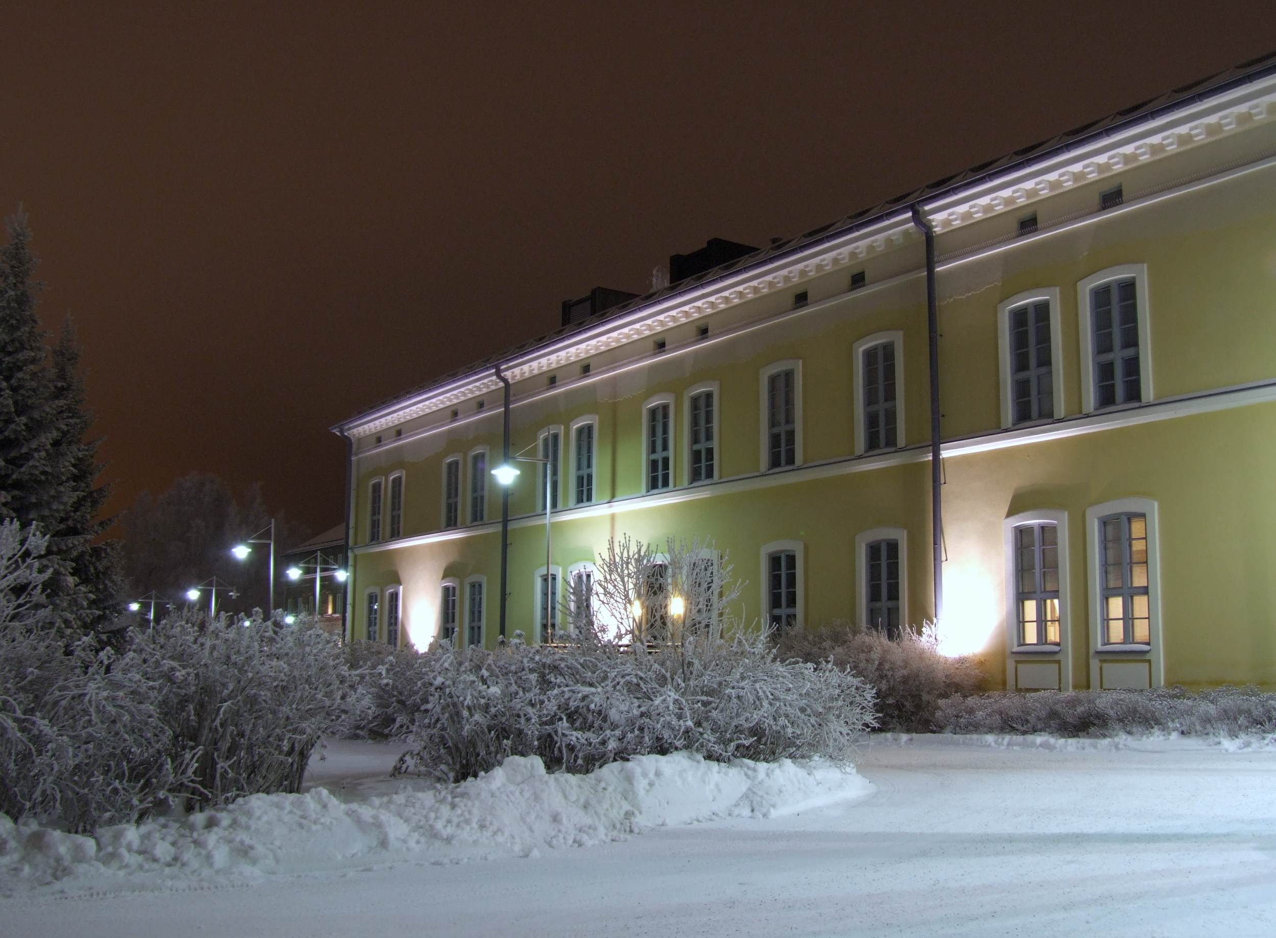 Former provincial hospital in Lasaretinsaari Island in Oulu, Finland. Built in 1849.